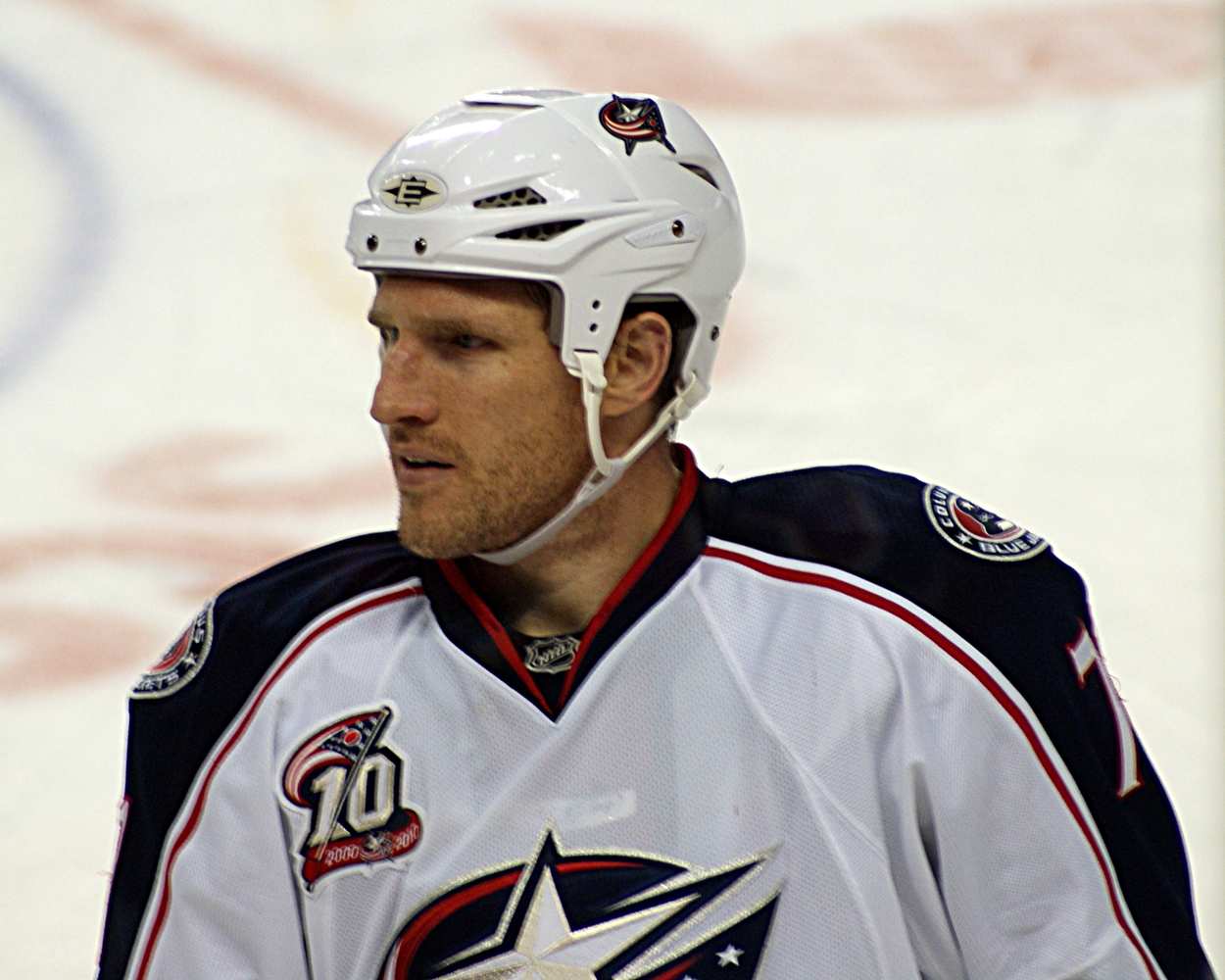 Chris Clark, born March 8, 1976 in South Windsor, Connecticut, is an American professional ice hockey player currently with the Columbus Blue Jackets of the National Hockey League. This NHL game action photo was taken December 13, 2010 at the Scotiabank Saddledome in Calgary, Alberta.